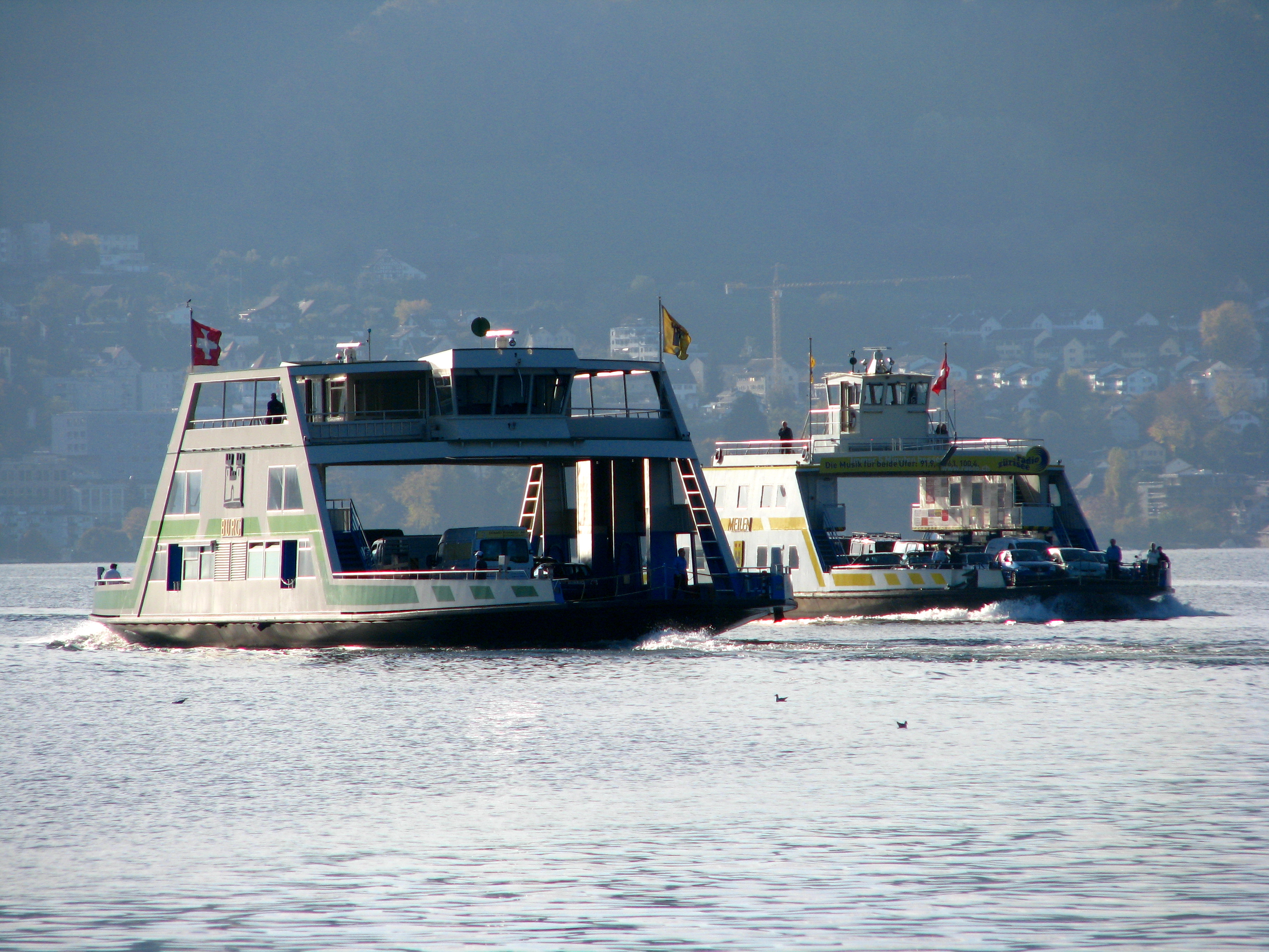 Lake Zürich : Ferry ships «Burg» and «Meilen», Zimmerberg hill at Horgen in the background.